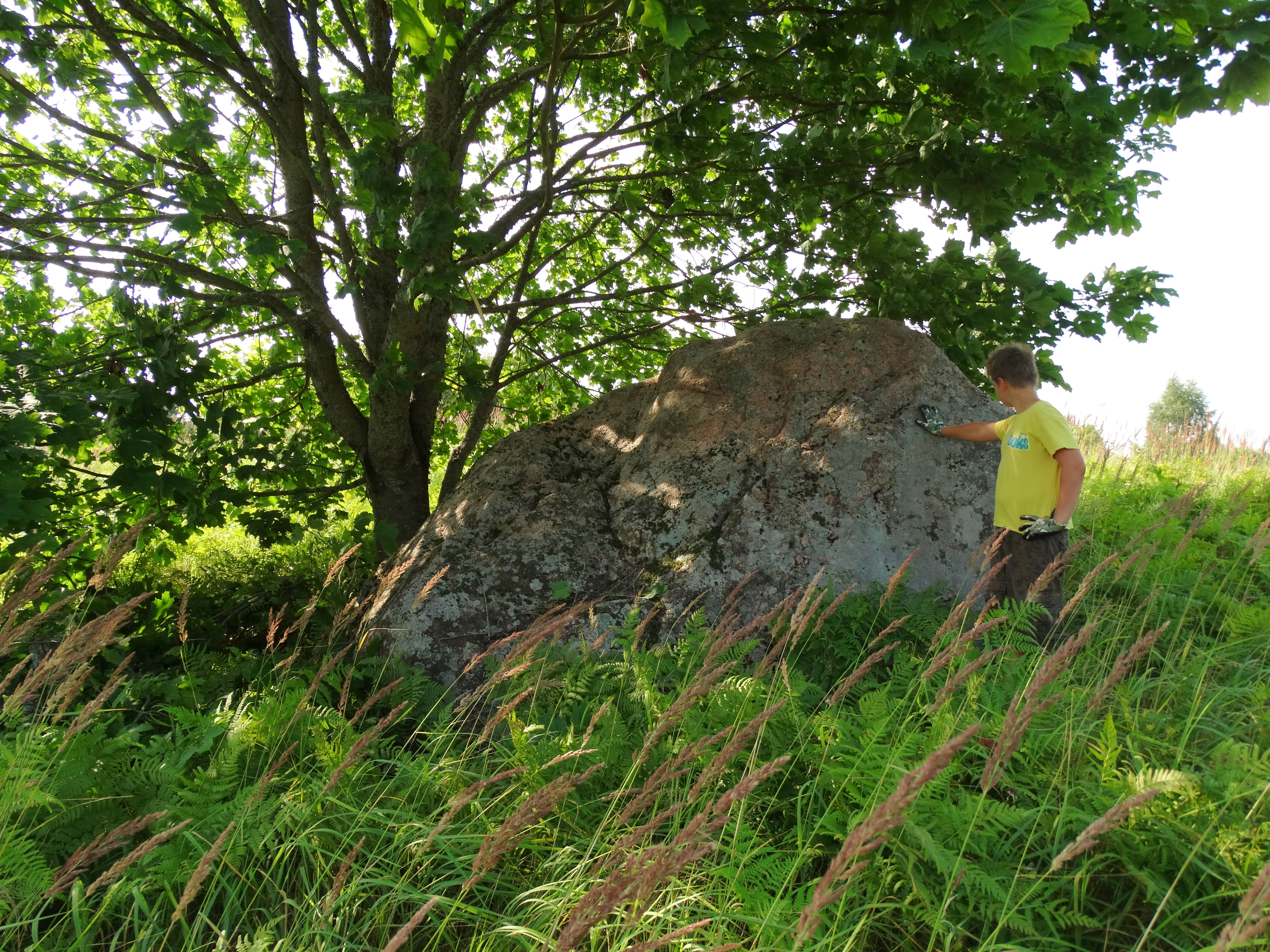 Šakaliai, protected stone, Švenčionys District, Lithuania